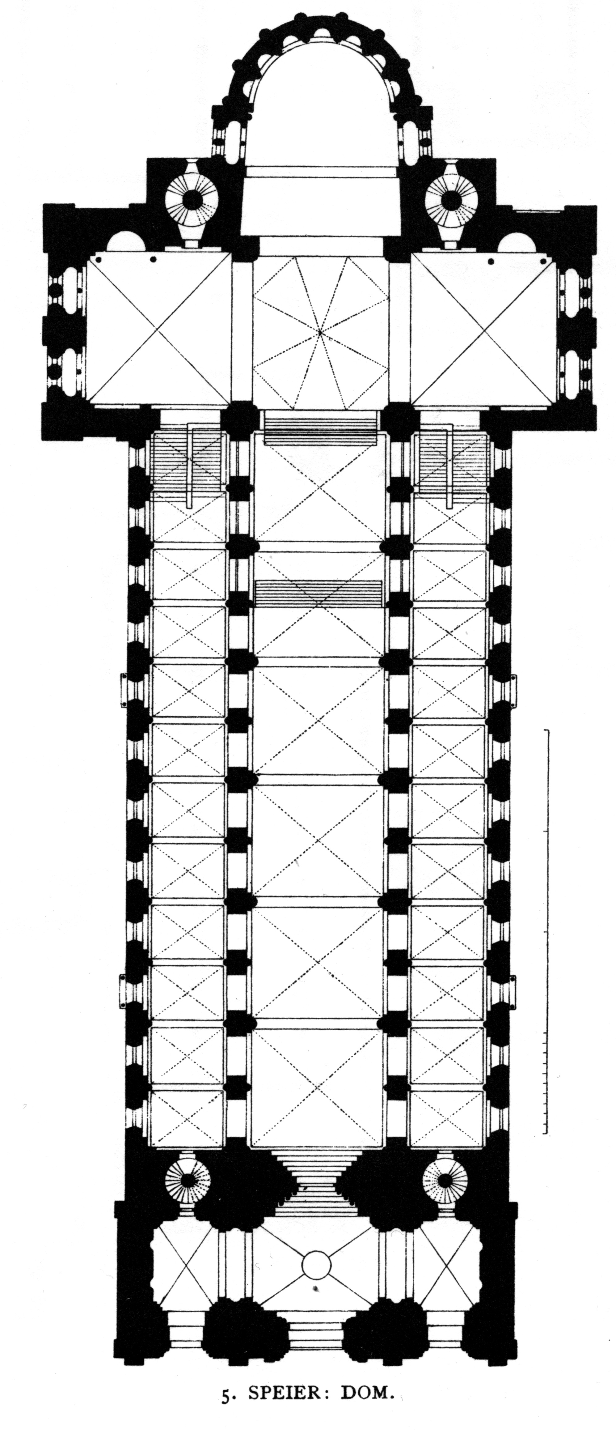 Cathedral of Speyer, floor plan.